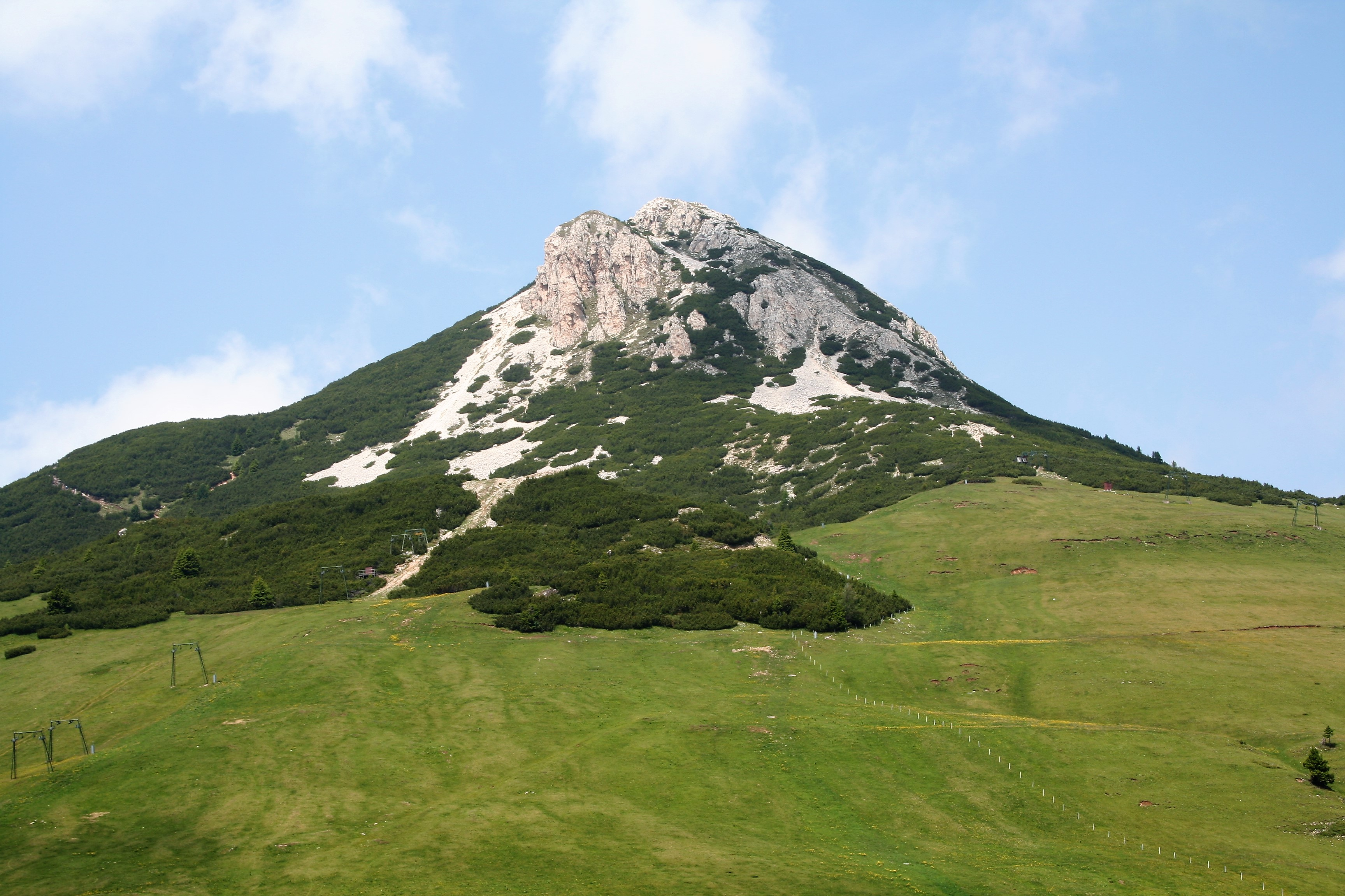 Corno Bianco (Weisshorn) mountain in Aldino, Italy